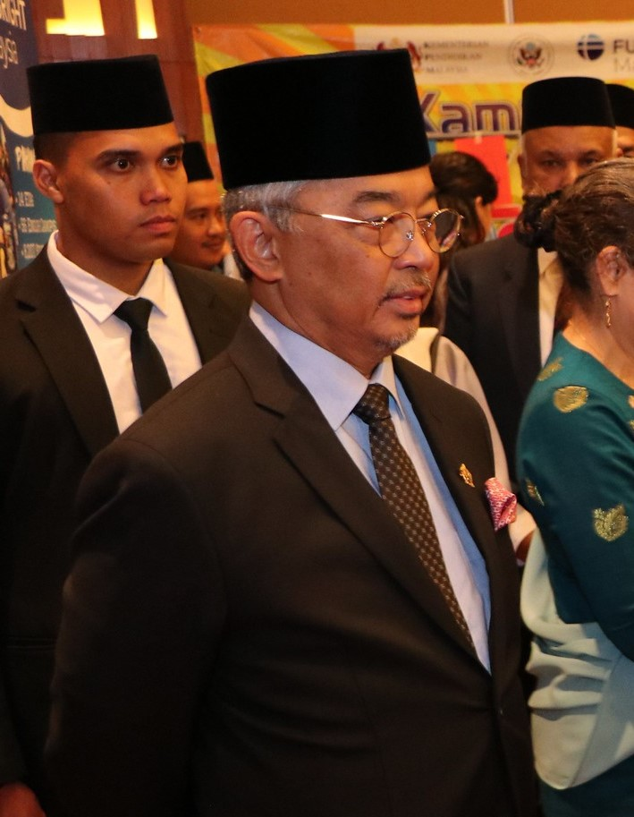 His Majesty the 16th Yang Di-Pertuan Agong (King) of Malaysia on 14 October 2019 during his visit to Pahang English Teaching Assistant (ETA) Showcase 2019